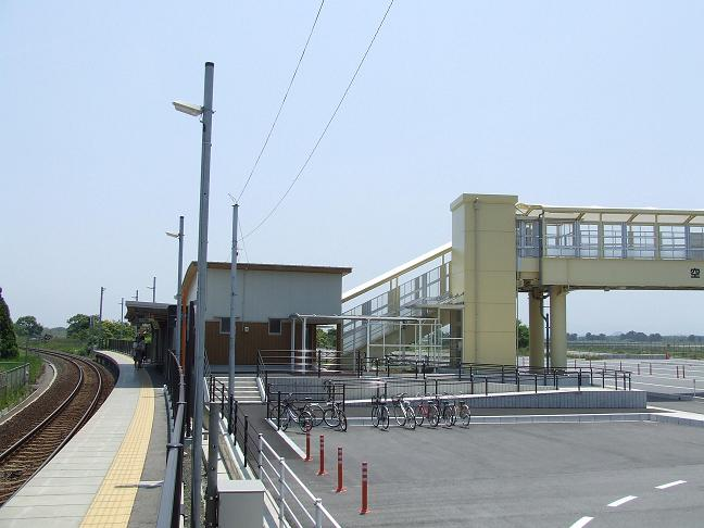 Yonago-Airport Station on JR Sakai Line